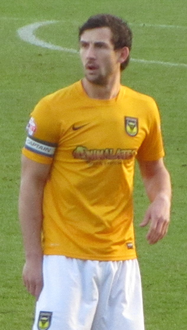 Jake Wright.